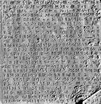 Darius Babylonian inscription south wall in persepolis